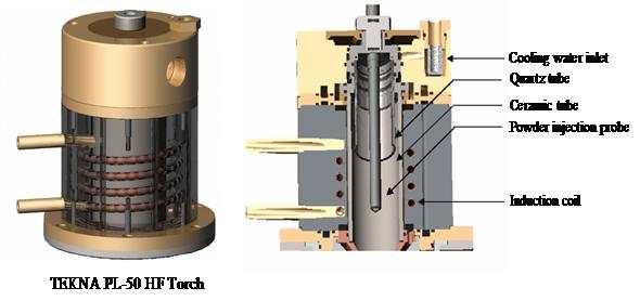 The Tekna PL-50 torch